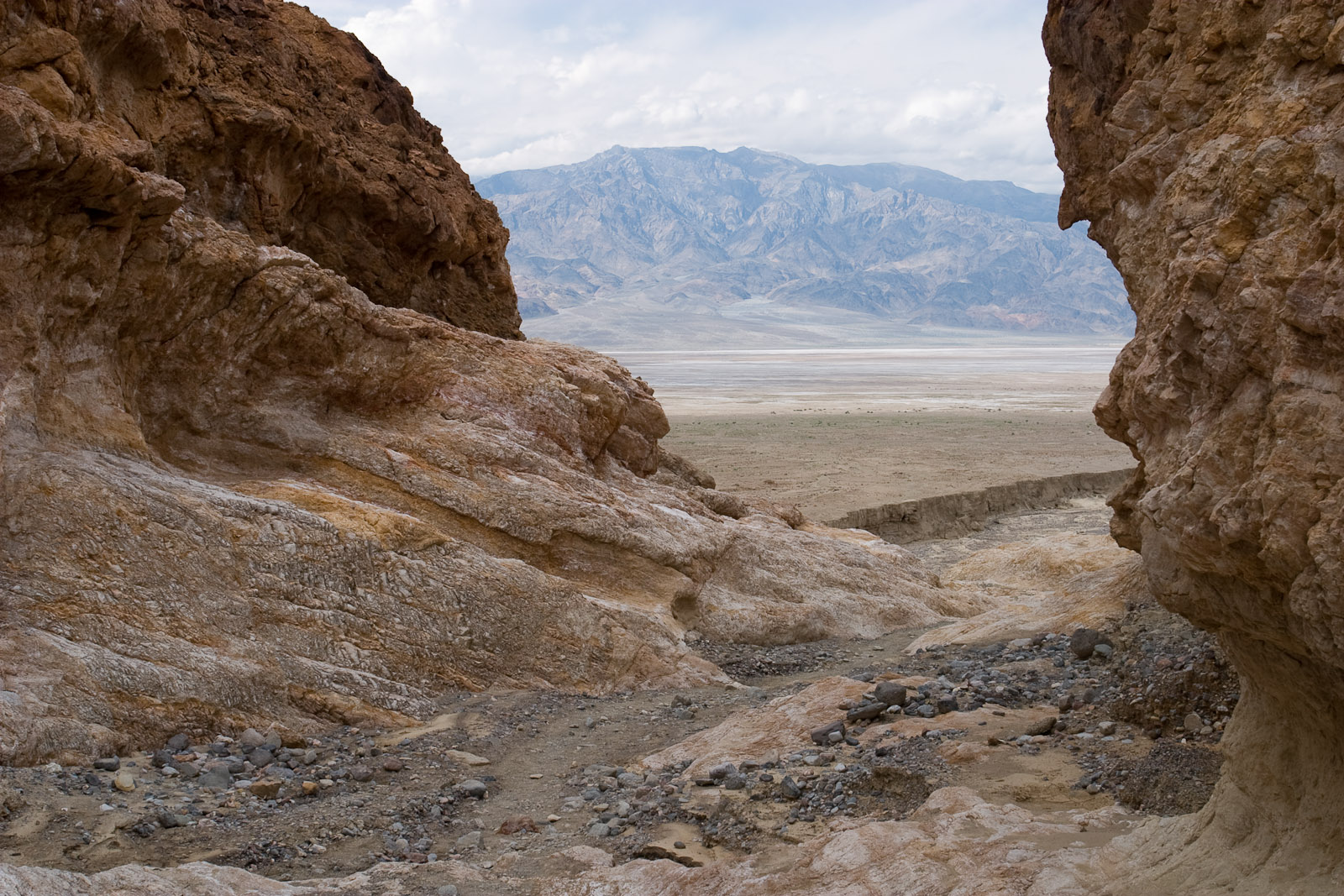 Leaving Gower Gulch